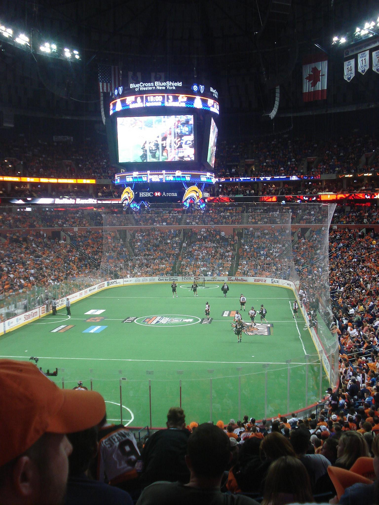 HSBC Arena during a Lacrosse game; Buffalo Bandits NLL 2008 Champs